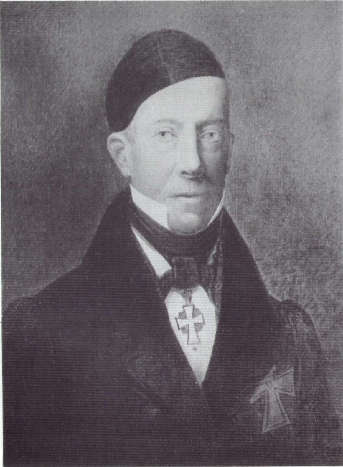 Heinrich Graf Reventlow (1796-1841), Danish-German jurist, diplomat, and civil servant